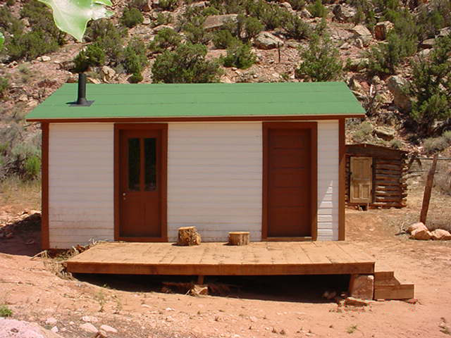 Hulbert's Cabin in Cedarvale/Hillsboro, Carbon County, Montana, USA in Bighorn Canyon National Recreation Area